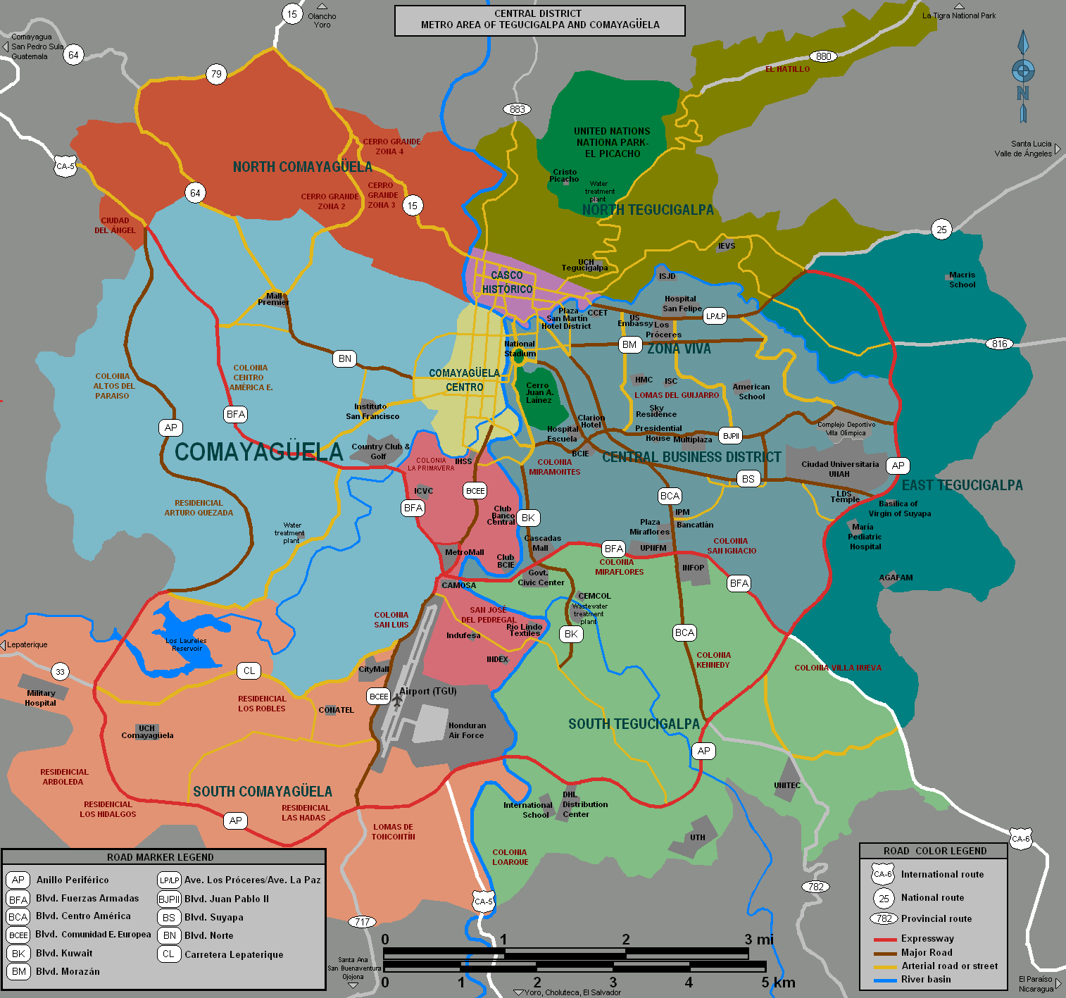 Metropolitan Area of Tegucigalpa and Comayagüela in the Central District municipality, the capital of Honduras. Map shows area into several sections of different color to aid in comprehending the different areas of city. Refer to Legend for definitions.